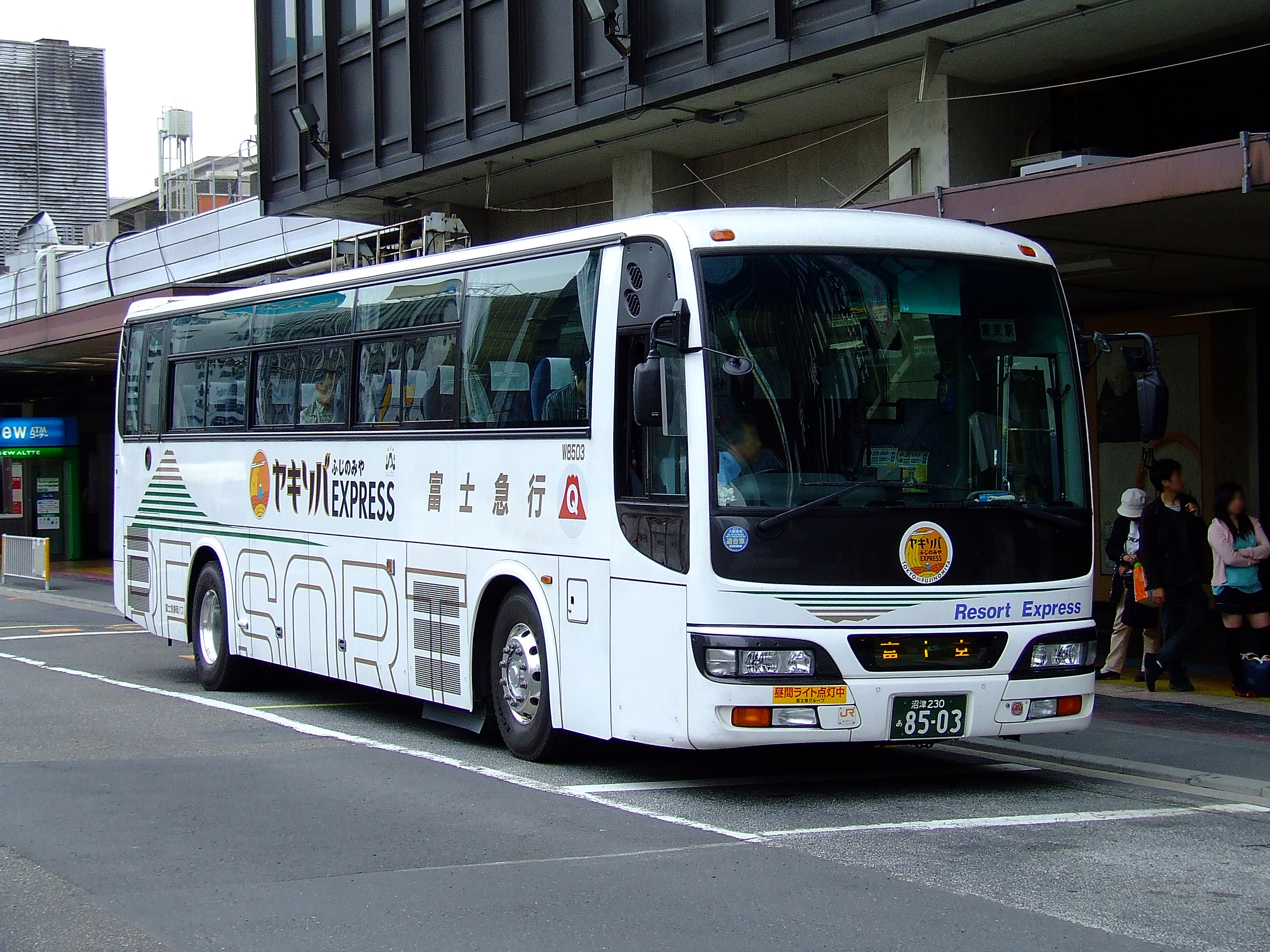 Nissan Diesel Space Arrow for the highway bus Yakisoba Express-go service operated by Fujikyu Shizuoka Bus at Tokyo Station